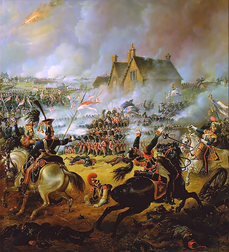 Battle of Waterloo 1815